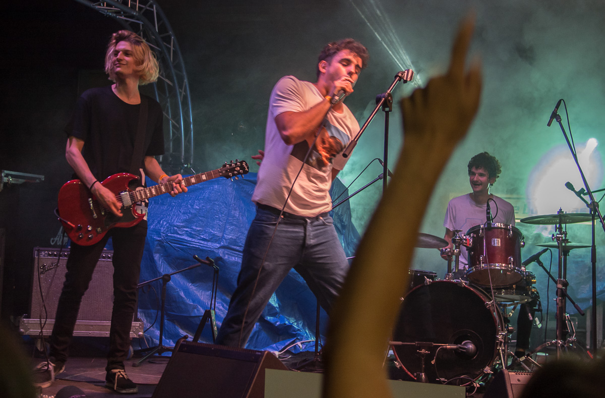 Carolina Durante Madrid IndiePop Band IndiRock. Acting Zaragoza, las Armas, October 12, 2018